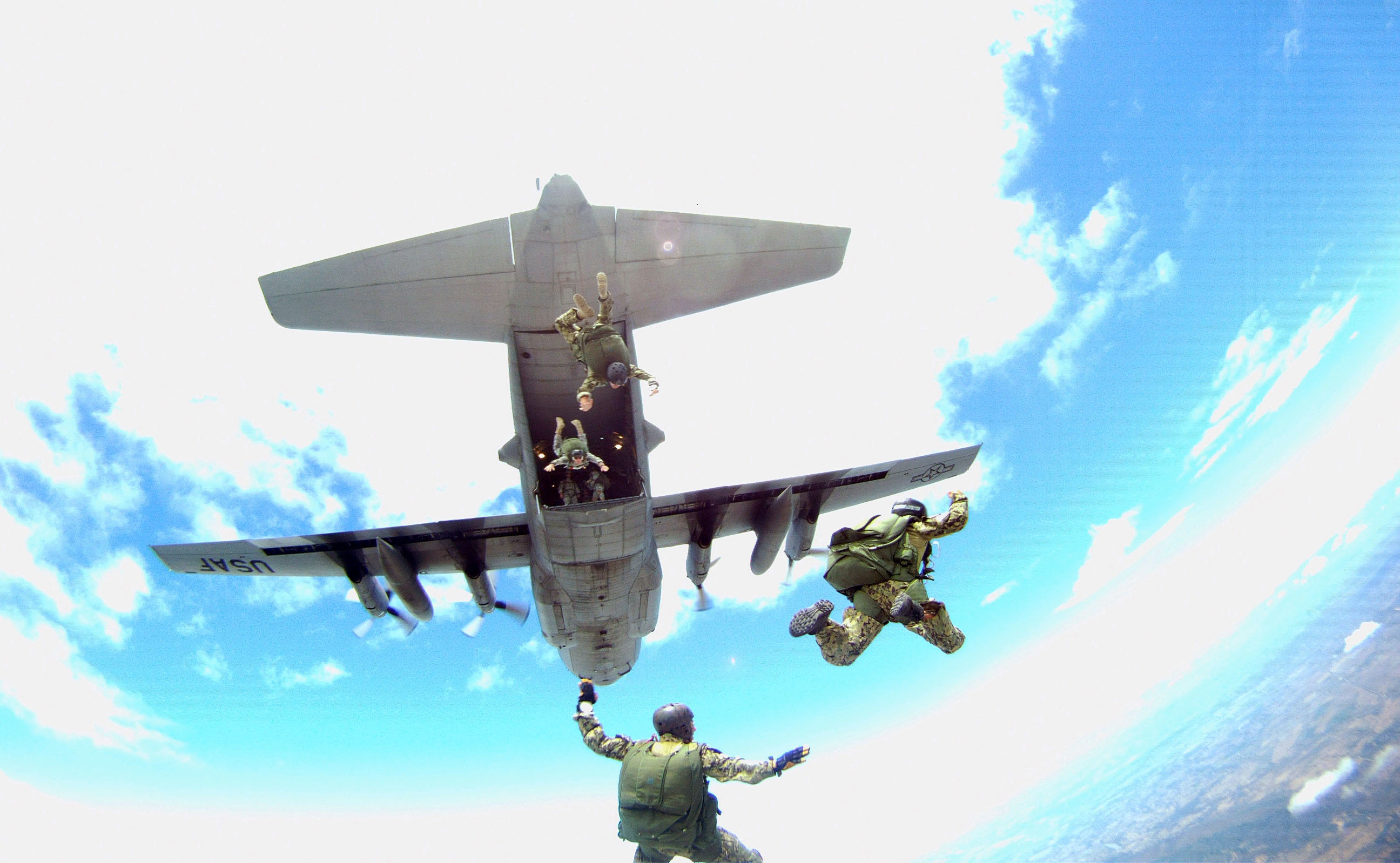 U.S. and Colombian parachutists jump out of a C-130 aircraft from an altitude of 15,000 feet as part of an international military free fall jump in Fort Tolemaida, Colombia July 30 as part of Fuerzas Comando 2014. The combined jump symbolized the multinational cooperation, mutual trust, readiness, and interoperability of special operations forces from both nations. The U.S. servicemembers are assigned to Special Operations Command South. An aircraft from the West Virginia Air National Guard supported the free fall jump.